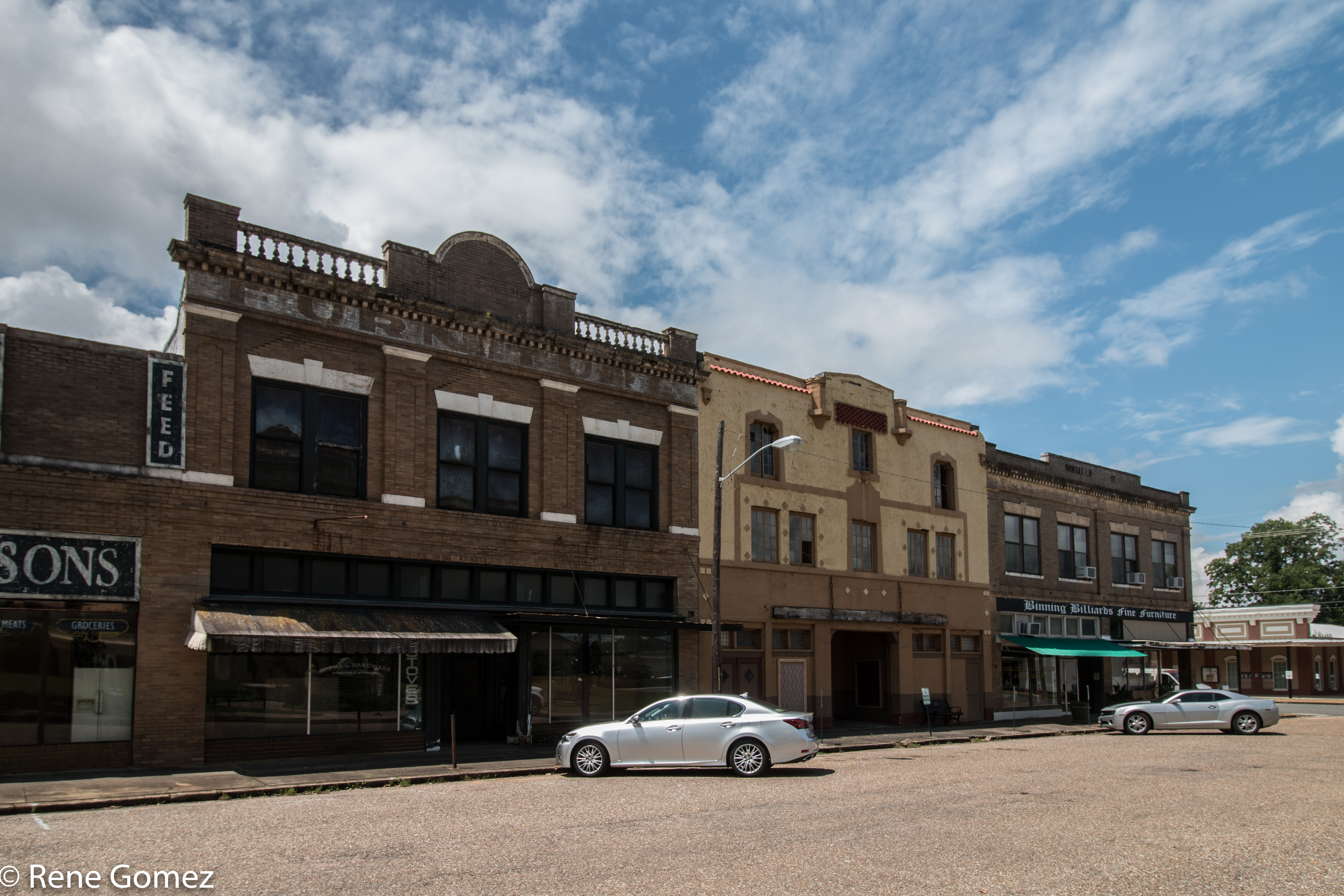 Mansfield Historic District